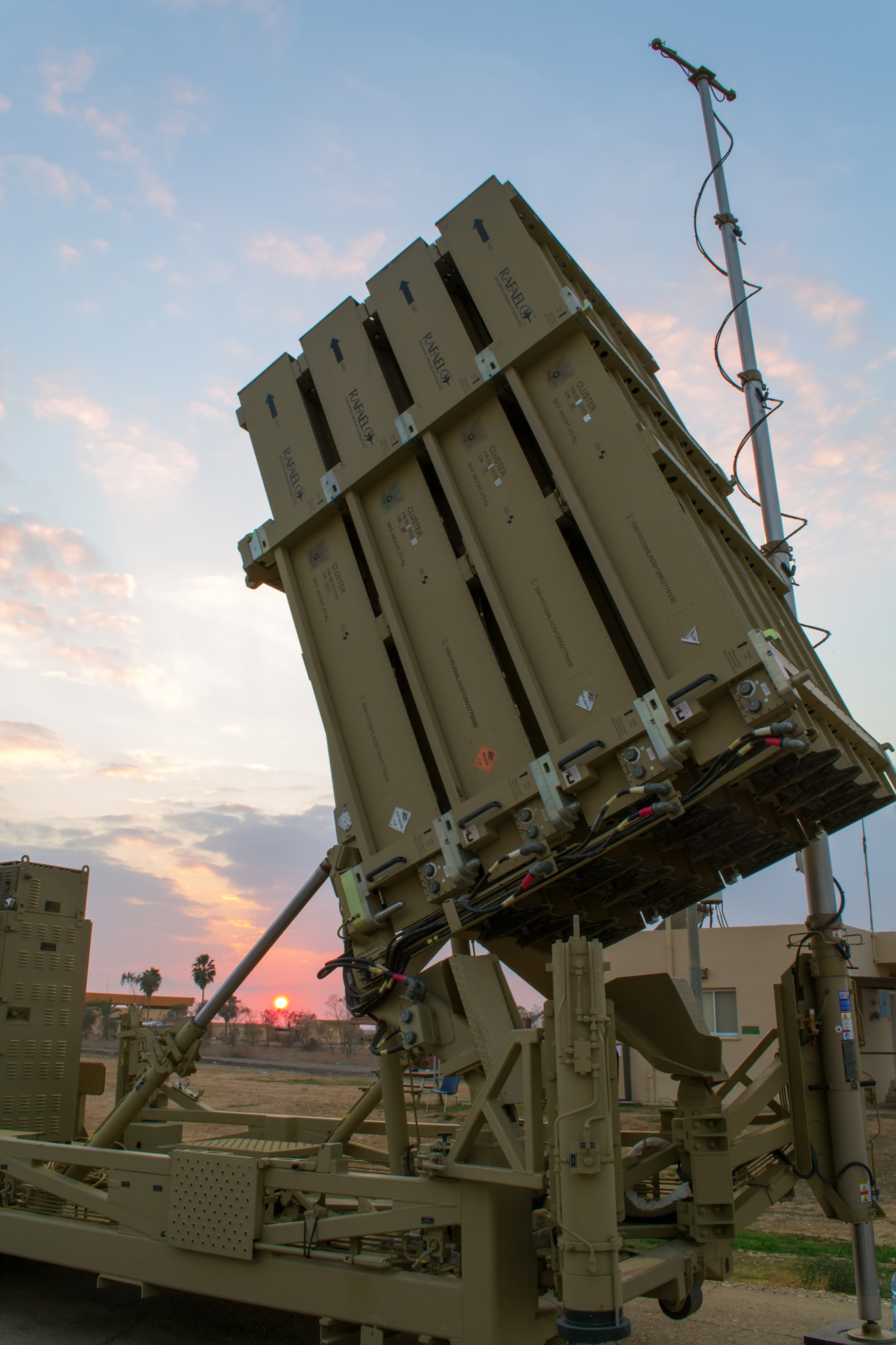 "Iron Dome" developed by Rafael Advanced Defense Systems on Graduates of Aviation Course 165 of IAF.